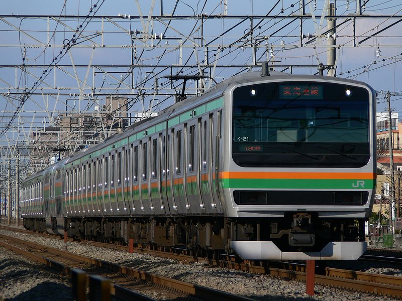 JR East E231 series EMU on The Tokaido Main Line in Fujisawa, Kanagawa Prefecture, Japan